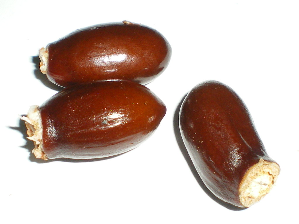 Litschicores